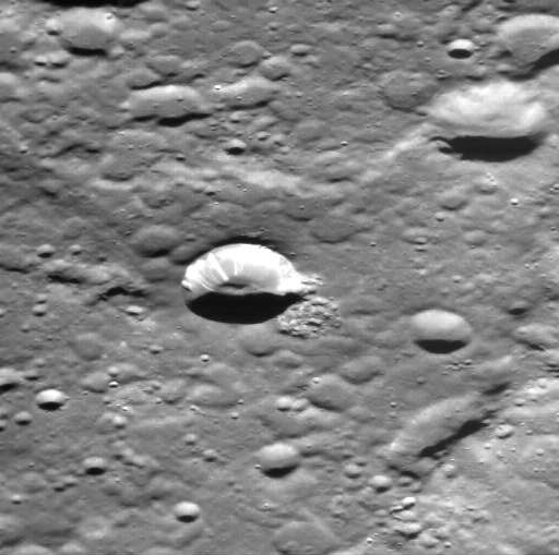 Oblique view of Martins crater on Mercury. MESSENGER NAC. Approximate north is at right. Emission Angle: 47.6 Incidence Angle: 75.8 Latitude: -7.9 Longitude: 55.0 Phase Angle: 28.2